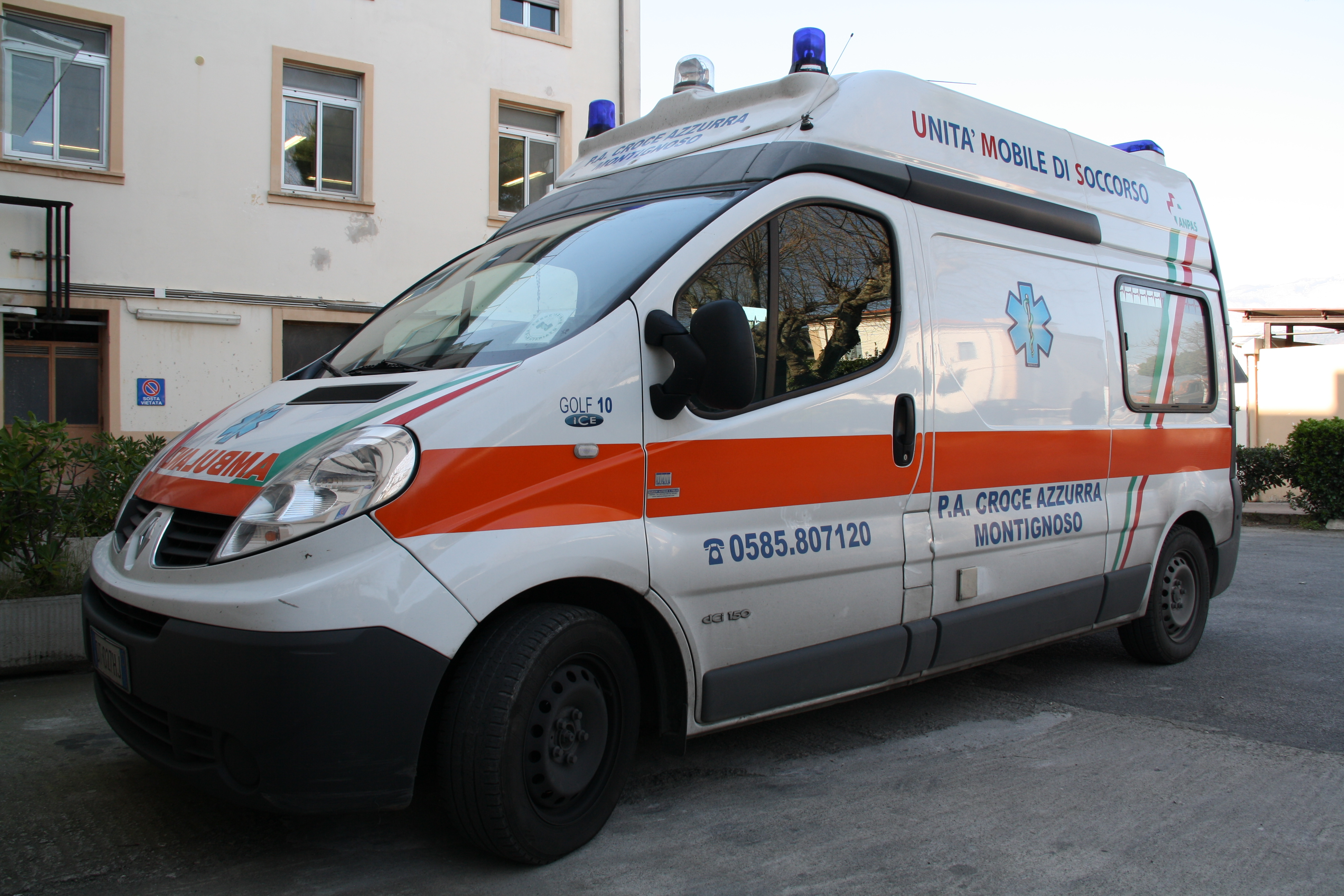 Italy, Tuscany, Montignoso. A Renault Trafic ambulance belonged to the local PA Croce Azzurra.